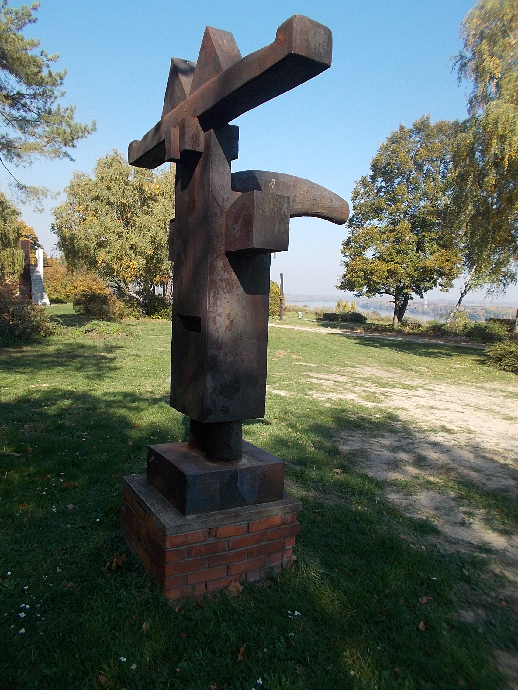 Figure by István Birkás (1996 cast steel sculpture) in Upper Promenade Park or Steel sculpture Park, Dunaújváros, Fejér County, Hungary.